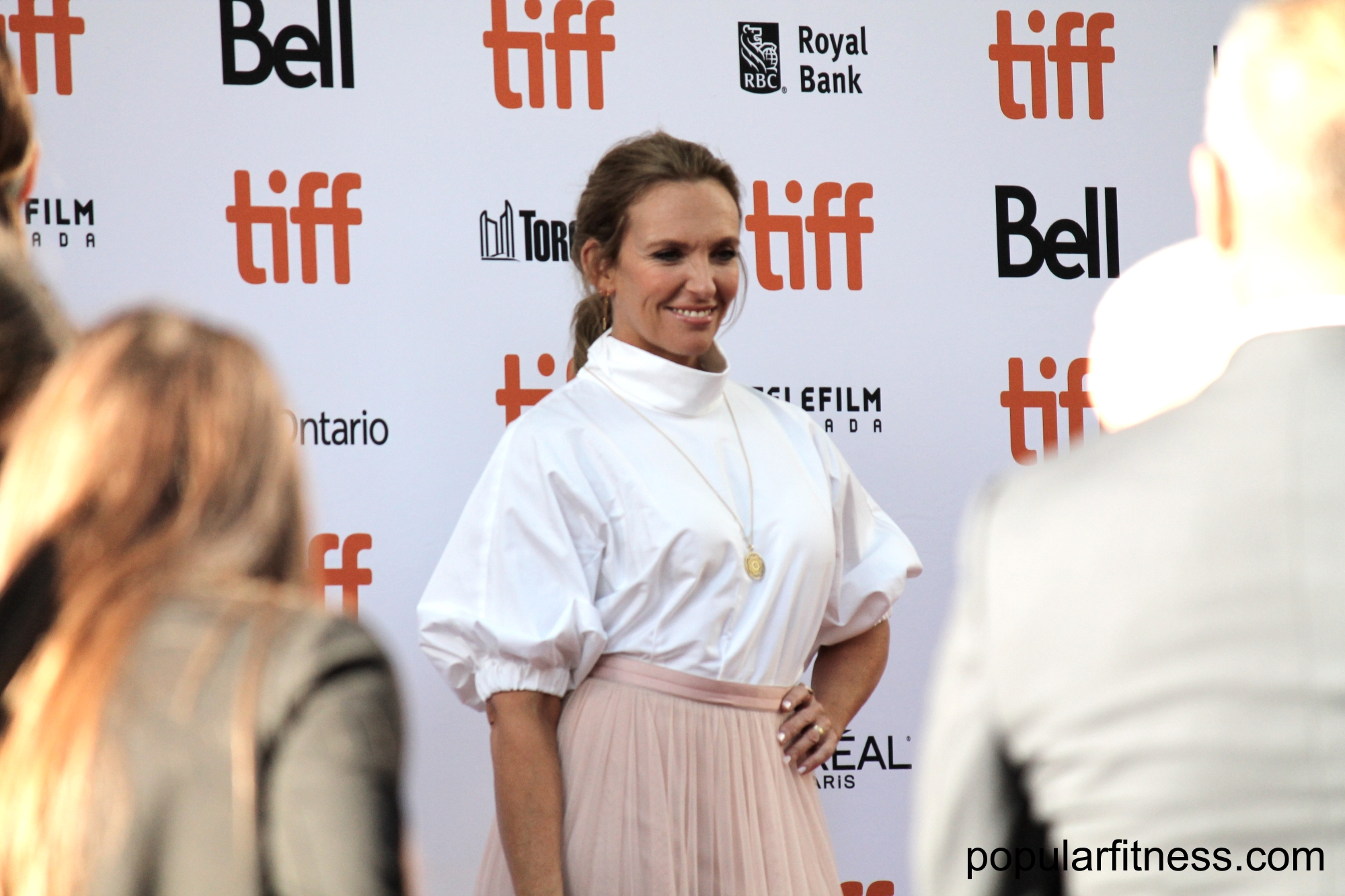 from Toni Collette at the Toronto International Film Festival